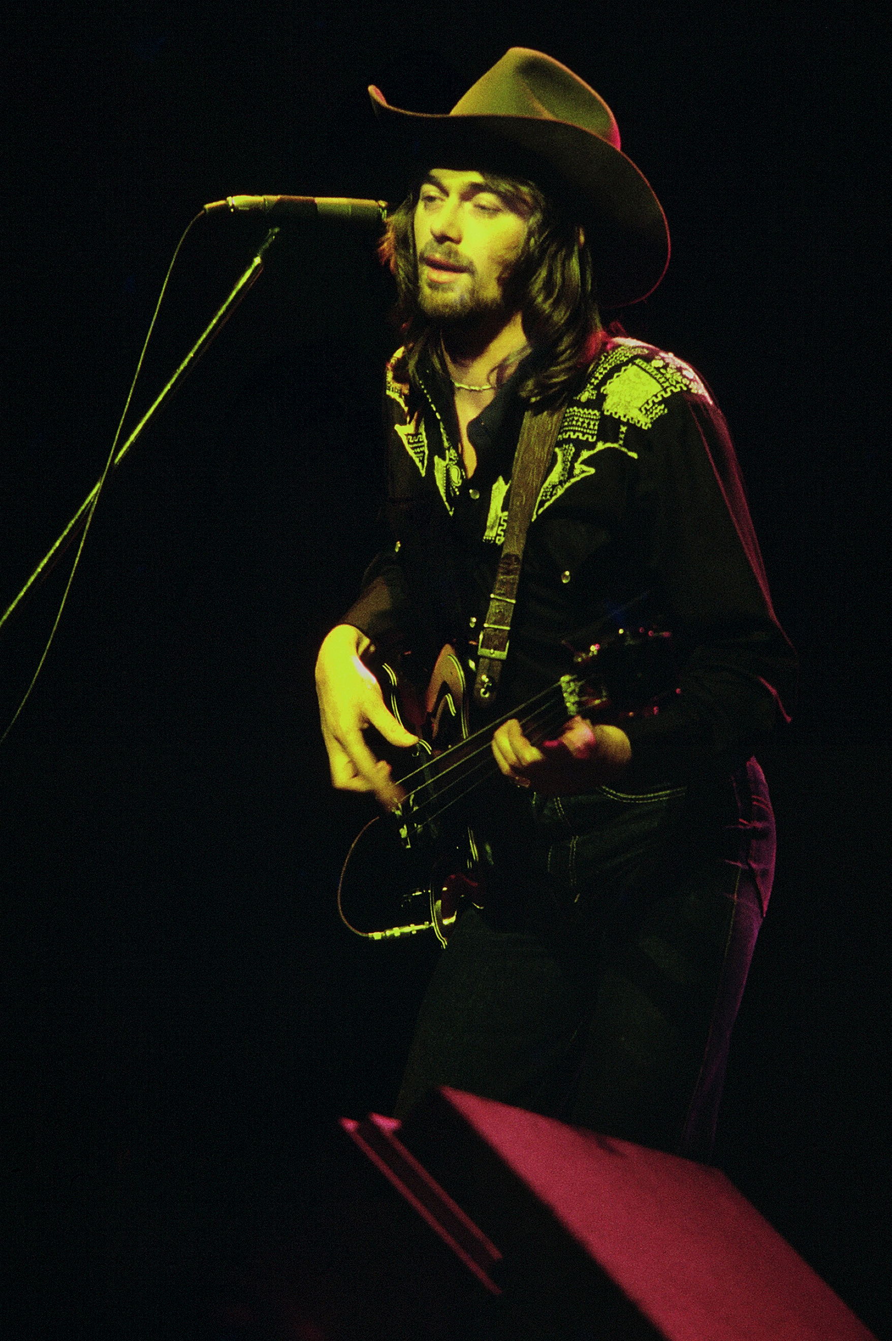 Boz Burrell, bass guitarist for King Crimson and Bad Company